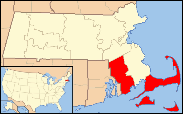 Map of the Catholic diocese of Fall River in the USA.